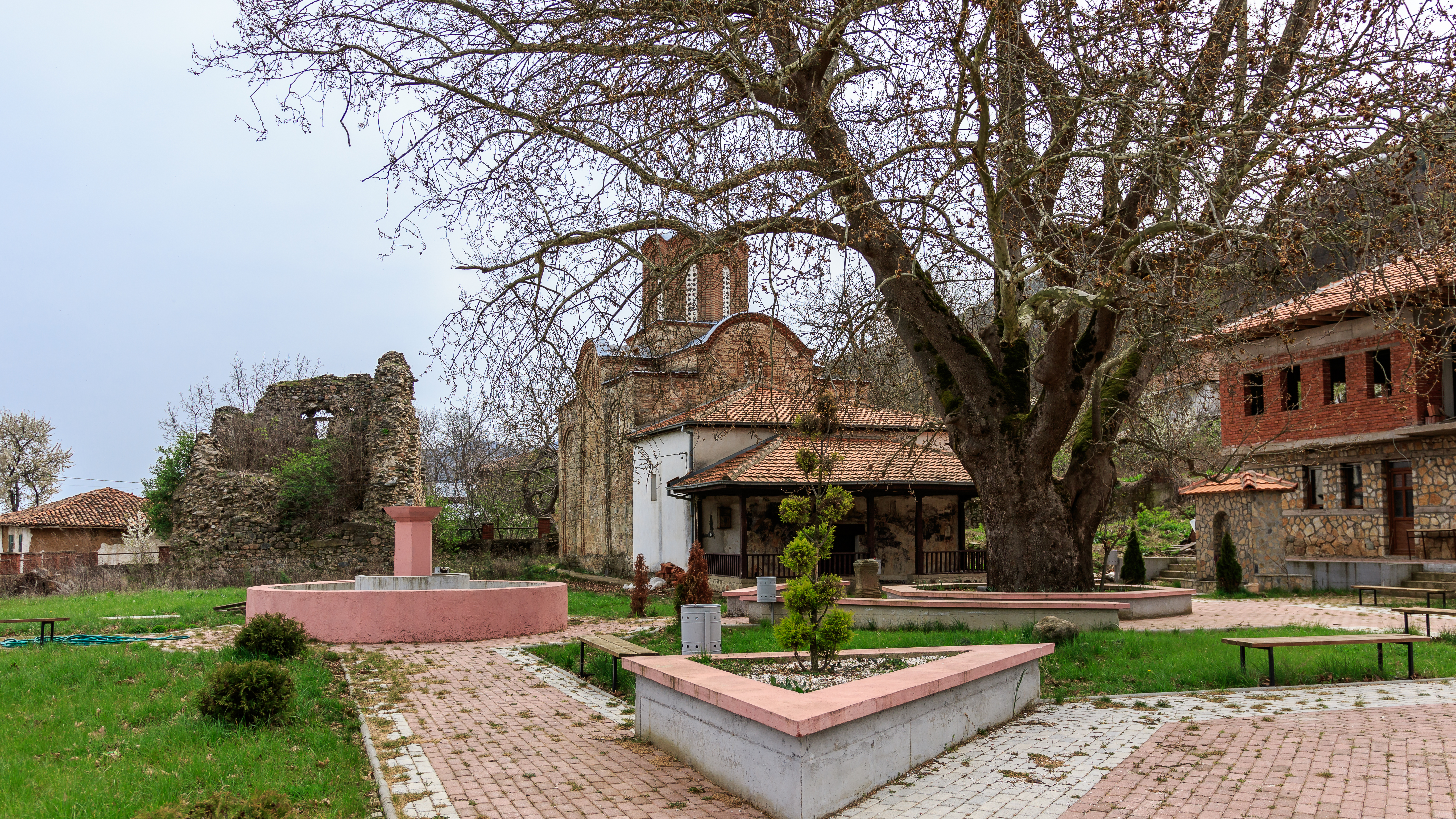 St. Stephen's Church and other buildings in Konče Monastery